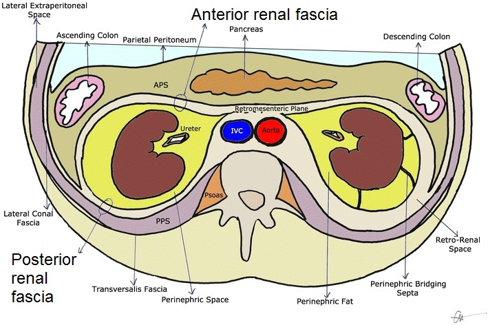 editTransverse plane through the kidneys, showing the retroperitoneal spaces and fasciae. The posterior pararenal space (PPS) and anterior pararenal space (APS) have been exaggerated to provide representation of their relation to other retroperitoneal structures. Perinephric bridging septa are seen between the left kidney and the adjacent renal fascia.